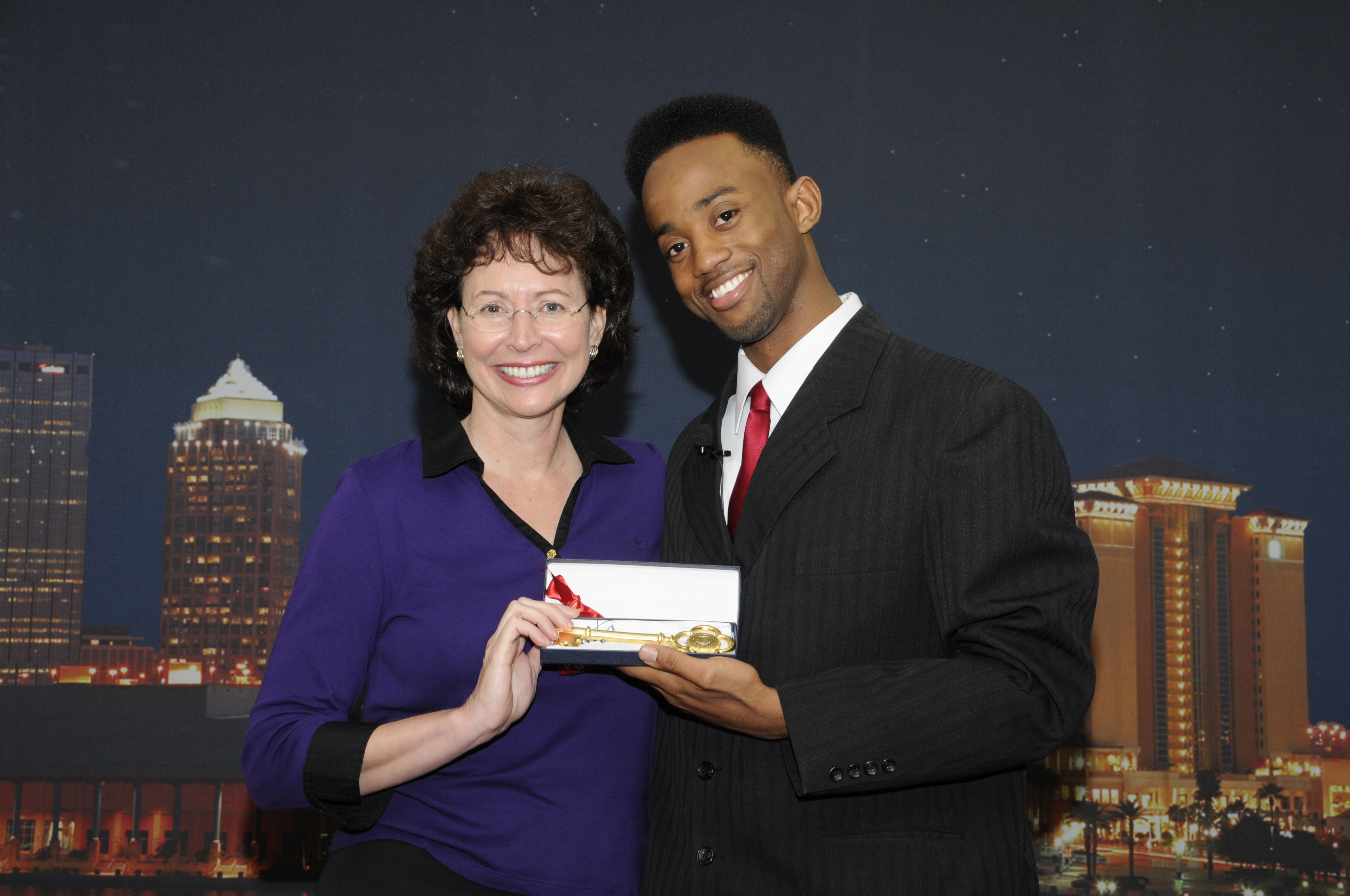 Motown Maurice receiving the Key to The City of Tampa from Mayor Pam Iorio on February 20, 2010.